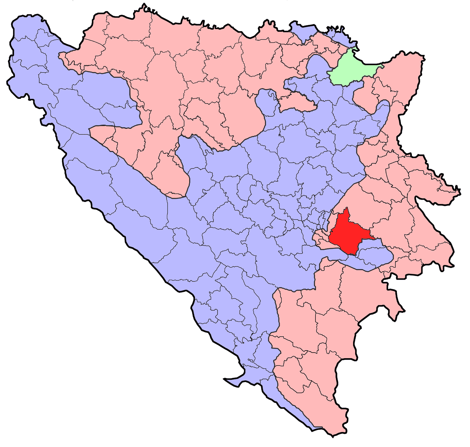 Location of Pale municipality in Bosnia and Herzegovina.